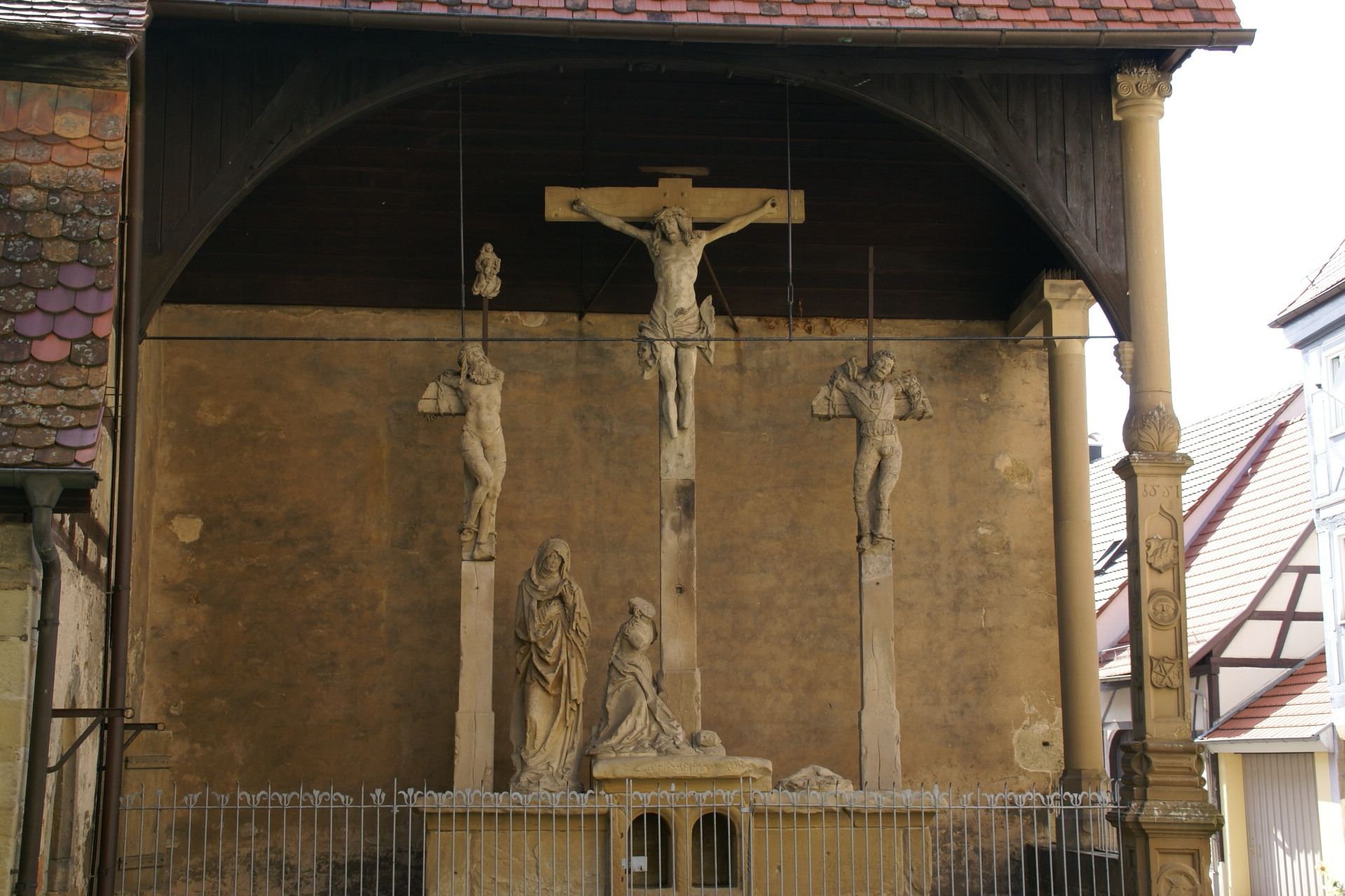 Crucifixion group by Hans Backoffen at the Evangelical Church in Bad Wimpfen, Germany